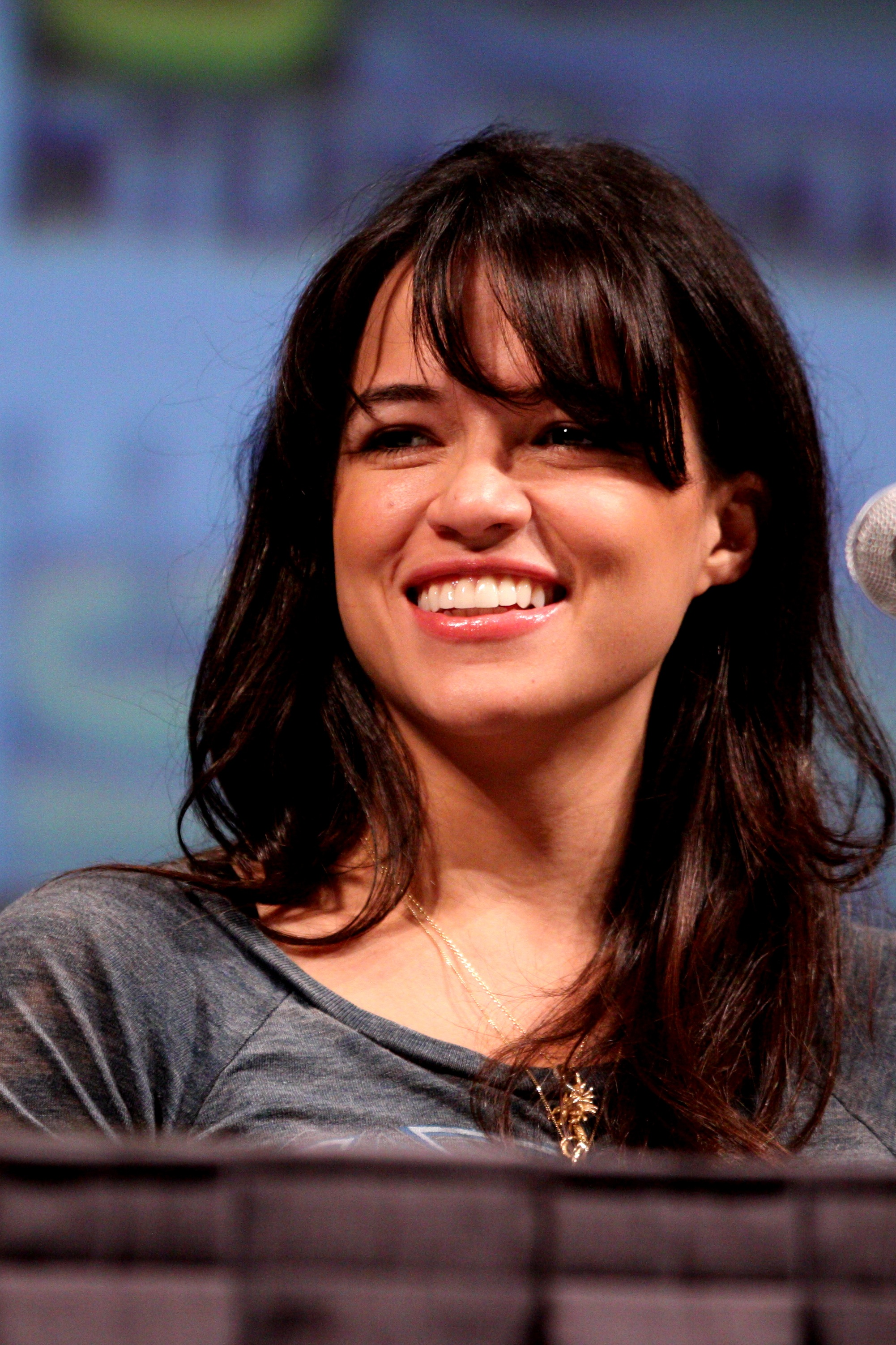 American actress, Michelle Rodriguez on the Battle: Los Angeles panel at the 2010 San Diego Comic Con in San Diego, California.